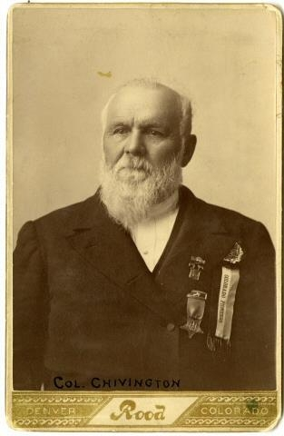 John M. Chivington by E. H. Rood, Colorado History Museum Object ID 95.200.923